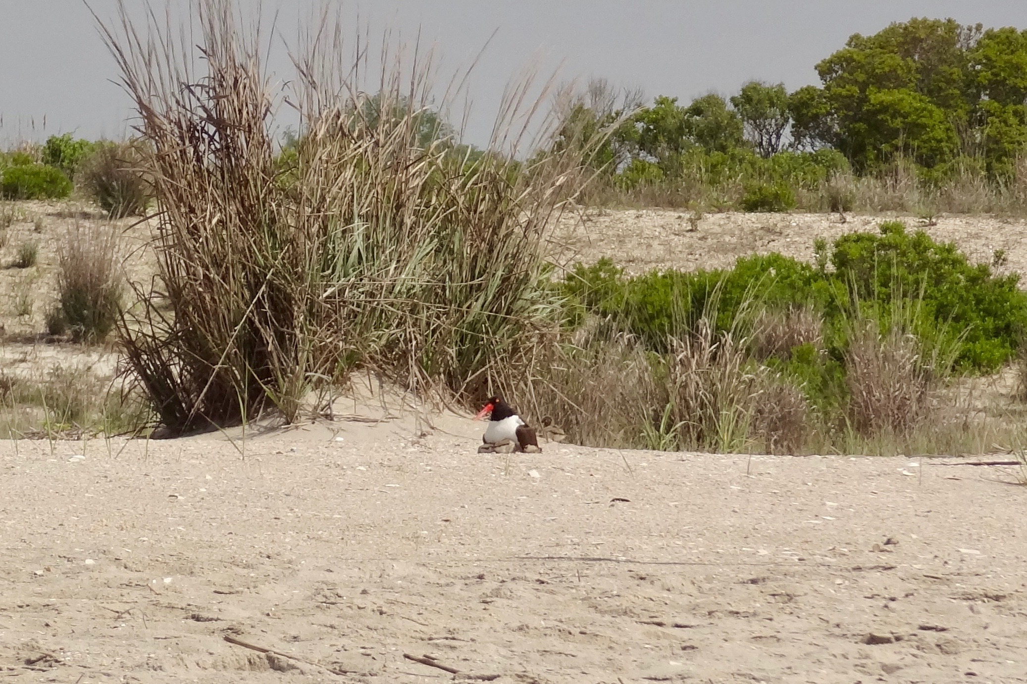 Oystercatcher and juveniles at their nest on the beach at South Cape May Meadows, New Jersey.